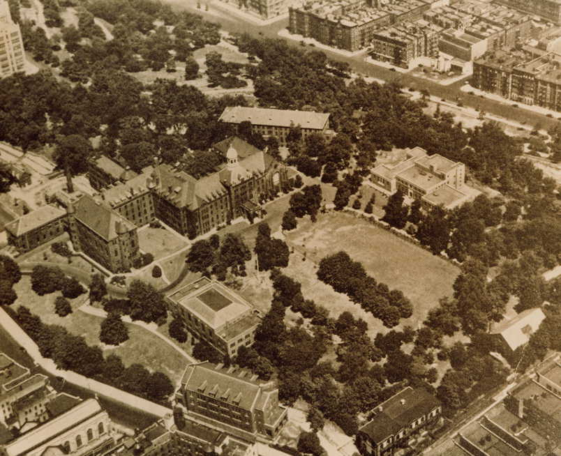 Aerial view of the South Campus, or Manhattanville Campus taken prior to 1952. Old archived picture over 50 years old of the South Campus of City College of New York, originally the campus of Manhattanville College of the Sacred Heart.